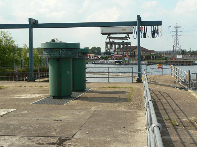 Beeston Weir generating plant The two 'pillars' are the tops of turbines. In the background is Beeston Marina. From here to Nottingham, navigation is via the Beeston and Nottingham Canals, not the river.